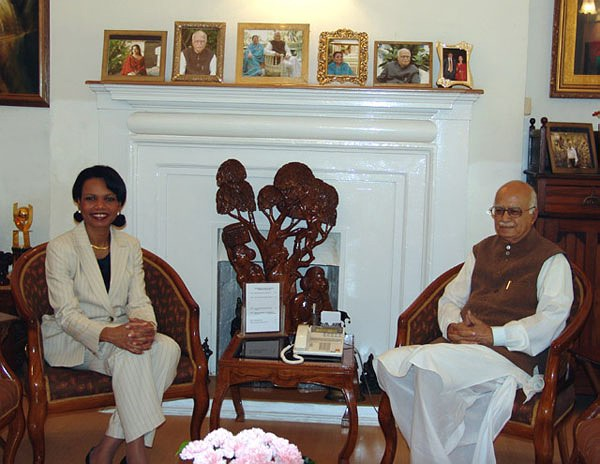 Washington, DC March 16, 2005 During her trip to Asia, U.S. Secretary of State Condoleezza Rice meets Leader of the opposition L.K. Advani in New Delhi. source